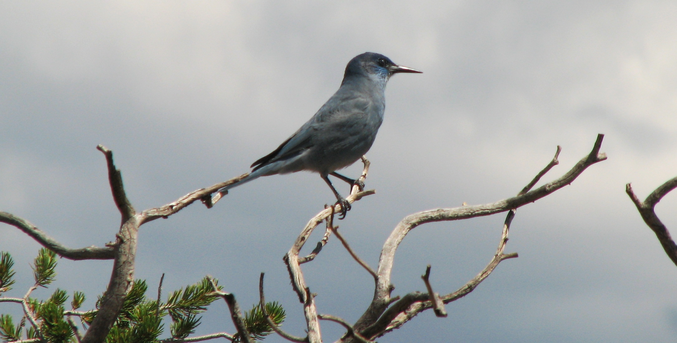 Pinyon Jay Gymnorhinus cyanocephalus, in Canyon de Chelly National Monument, northeastern Arizona, USA.